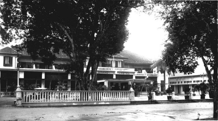 Grand Hotel Medan